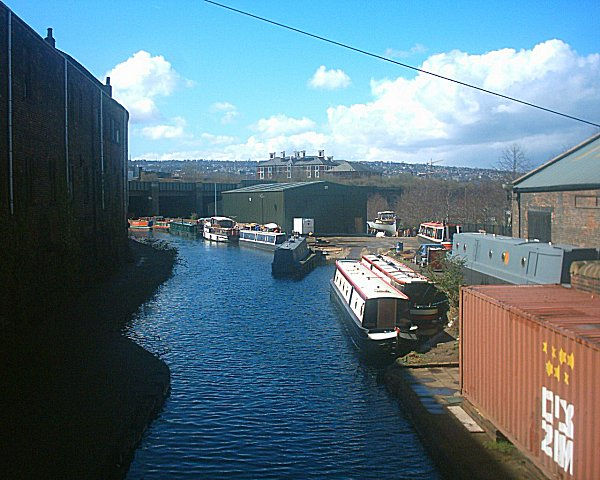 Sheffield Canal, boatyard from Cadman Bridge.